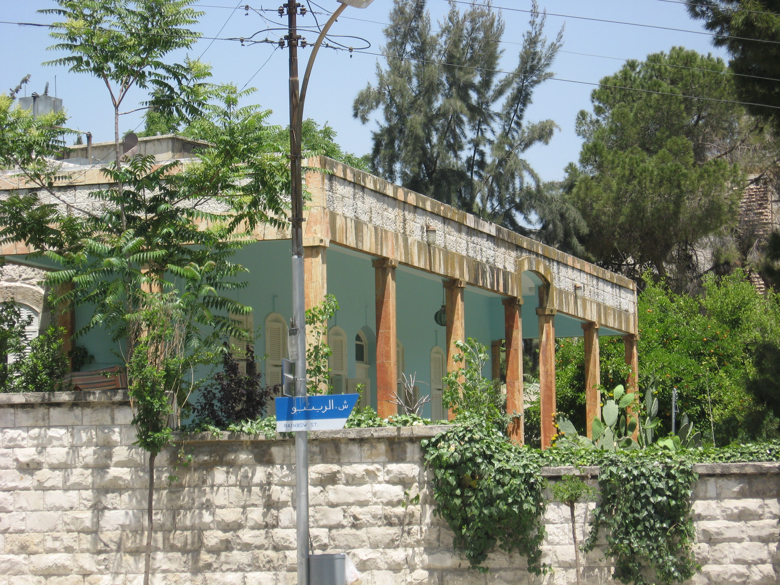 My picture, May 2008.